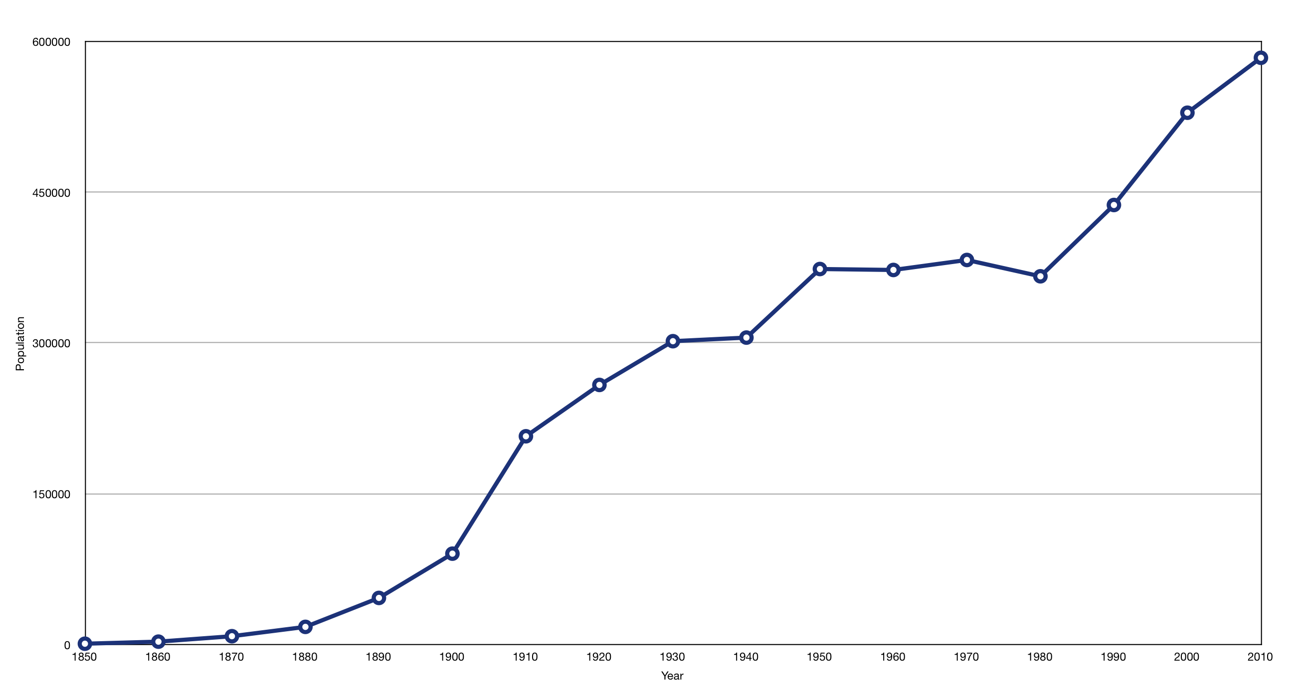 Portland's population, Oregon, (1850-2010).